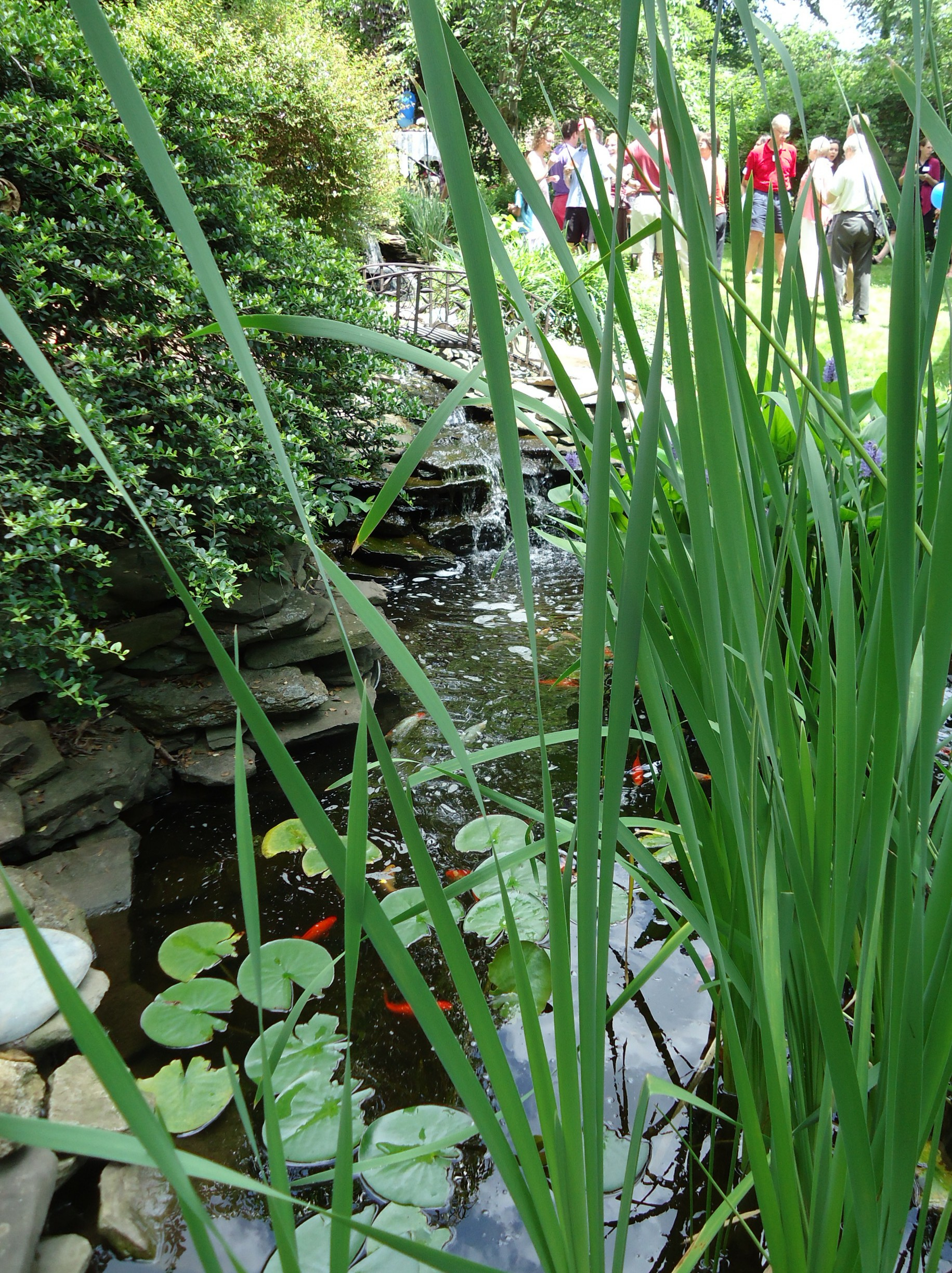 Garden pond with cattails and waterlily pads, and a waterfall. On a beautiful June afternoon in Summit, New Jersey.